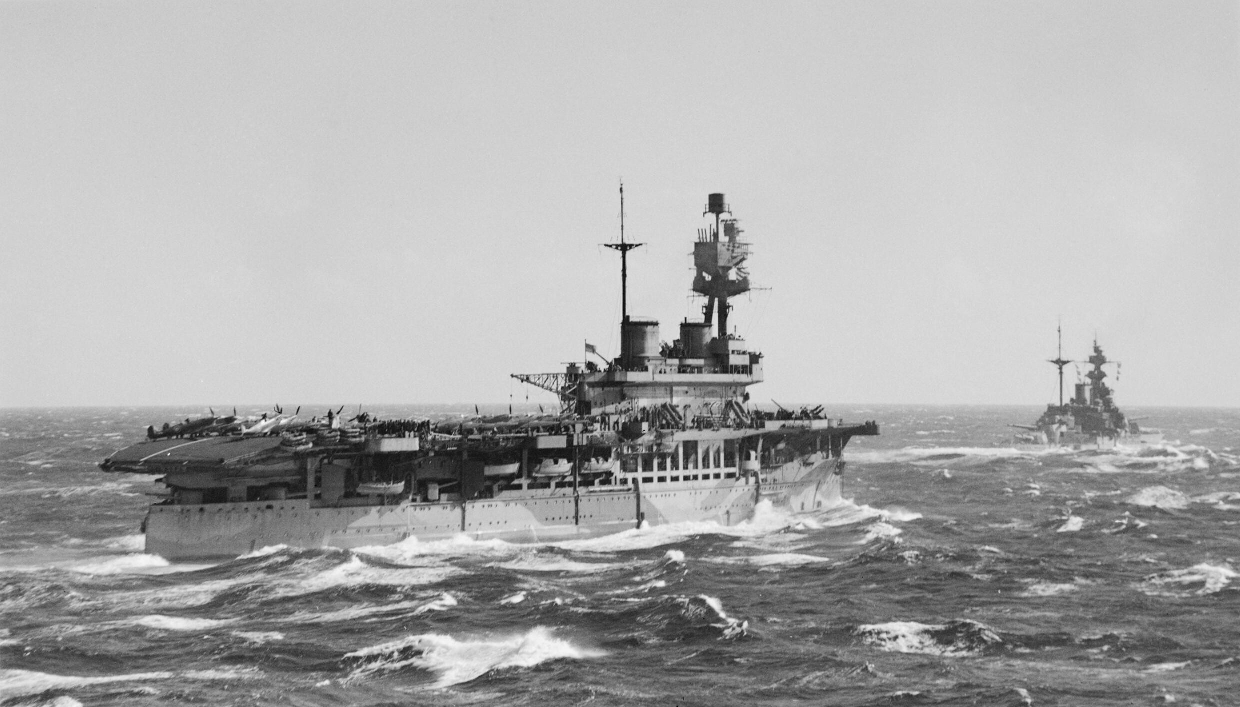 HMS EAGLE and HMS MALAYA in the Mediterranean during Operation 'Spotter', which delivered 16 RAF Spitfire Mk Vs to Malta on 7th March 1942. HMS EAGLE and HMS MALAYA whilst serving with Force H in the Mediterranean. Supermarine Spitfires are ranged on the deck of HMS EAGLE (photograph taken from the aircraft carrier HMS ARGUS).